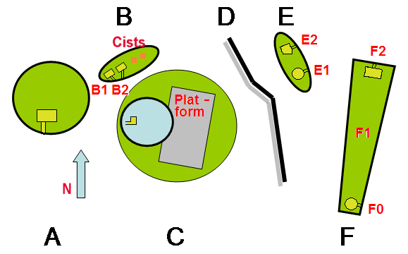 Image taken under GNU licence from german wiki, there Bild:Bild:Megawal88.png slightly altered (translation) submitted by user J.E. Walkowitz (JEW), 2007 source: user JEW